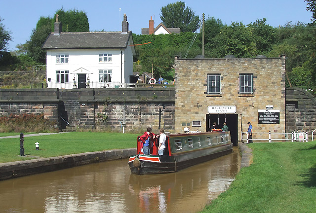 Narrowboat emerging from the Harecastle Tunnel